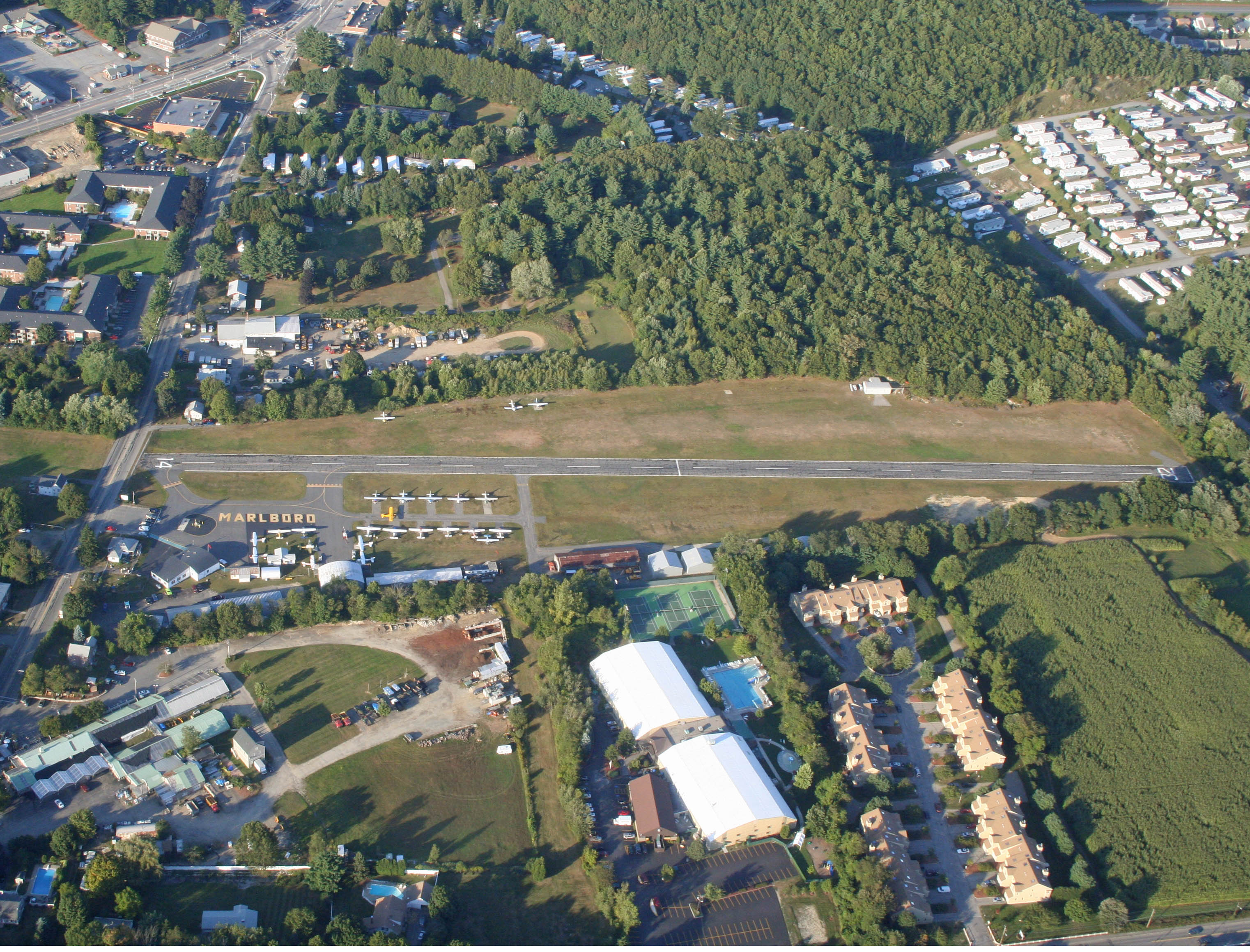 Aerial shot of Marlboro Airport, Marlborough, Massachusetts.